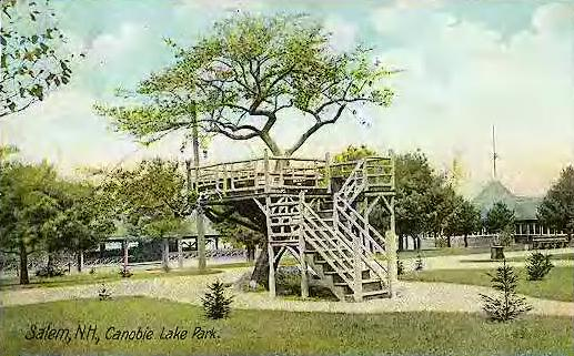 "Under the Apple Tree" in 1908, Canobie Lake Park, Salem, NH; from an old postcard.